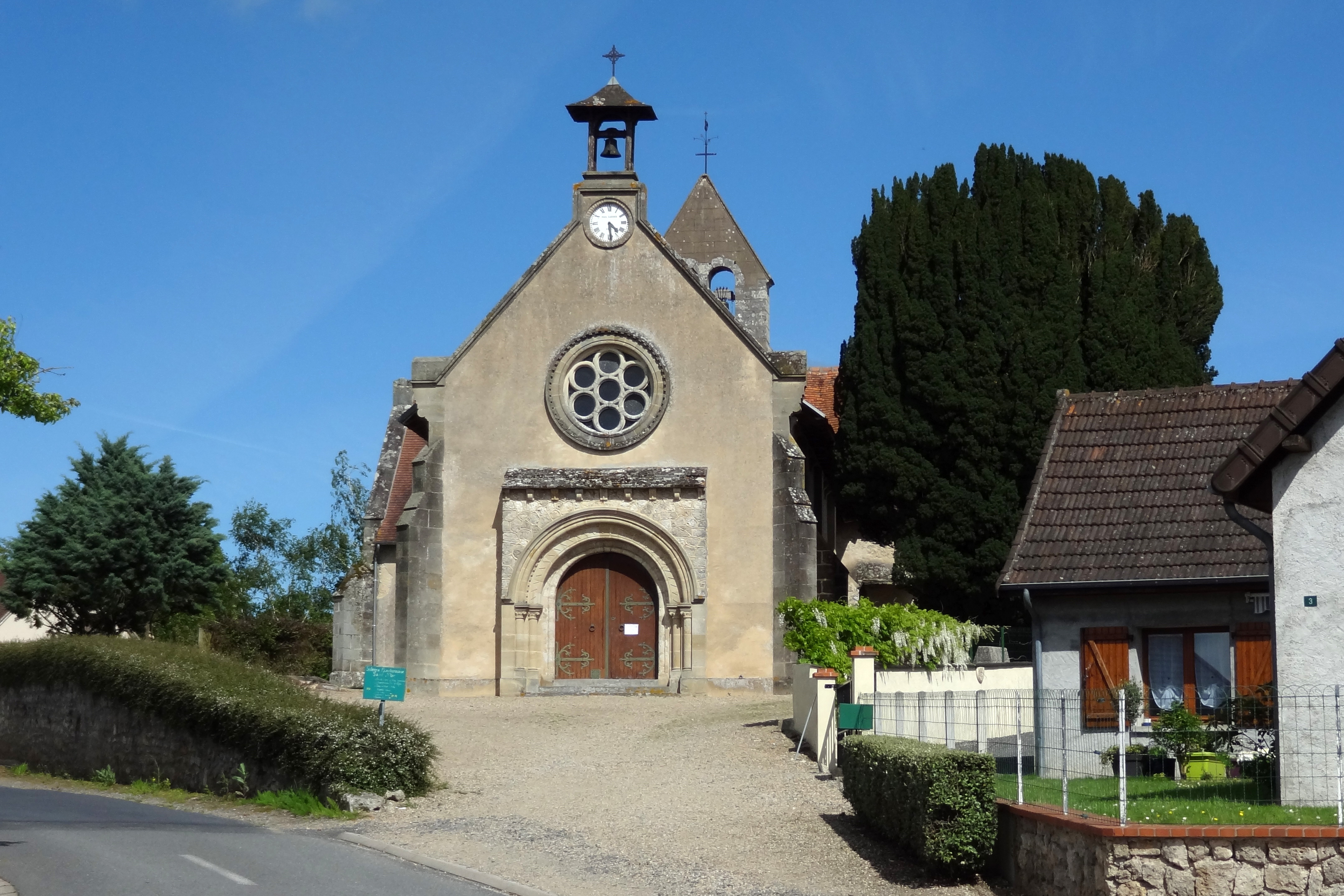 Saint-Voir church, Saint-Voir, Allier, France